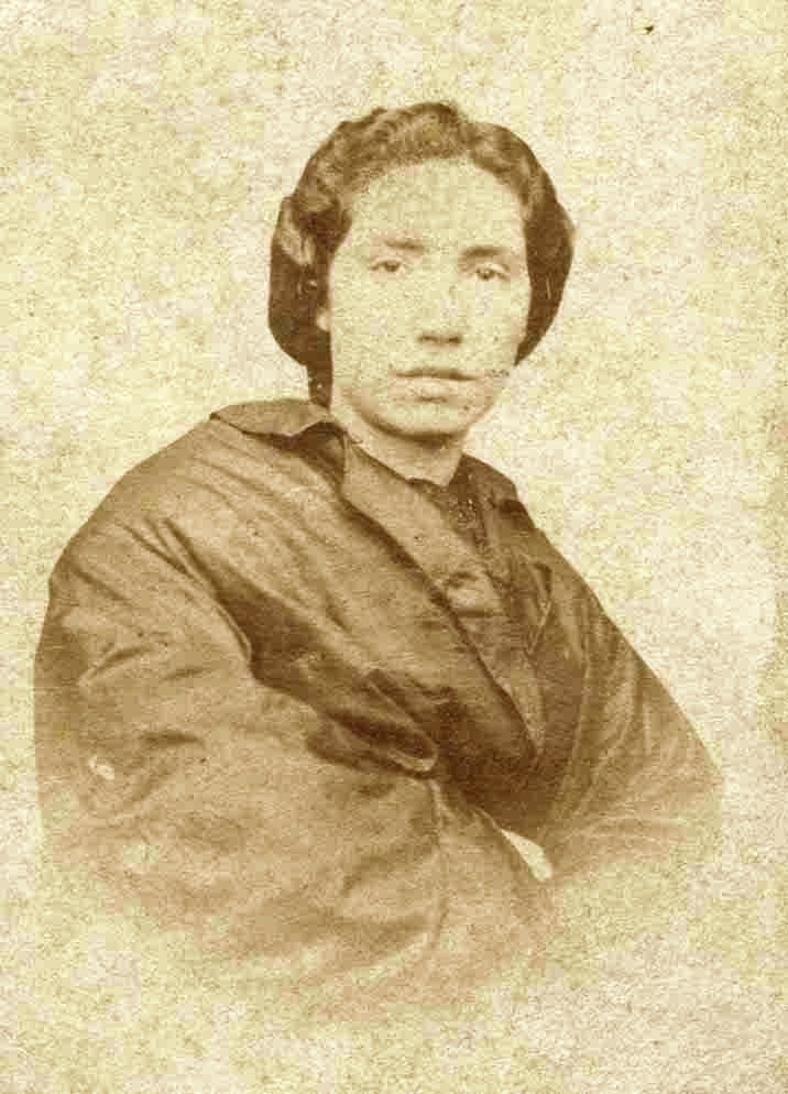 Photo of Rosalía de Castro, 1837-1885, Spanish author and creator of modern Galician literature.